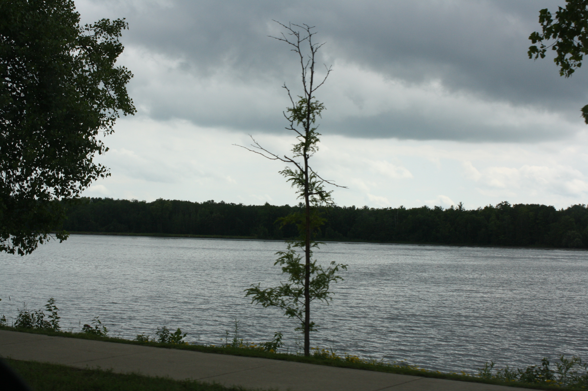 The Oconto River in Oconto Falls, Wisconsin along Wisconsin Highway 22.